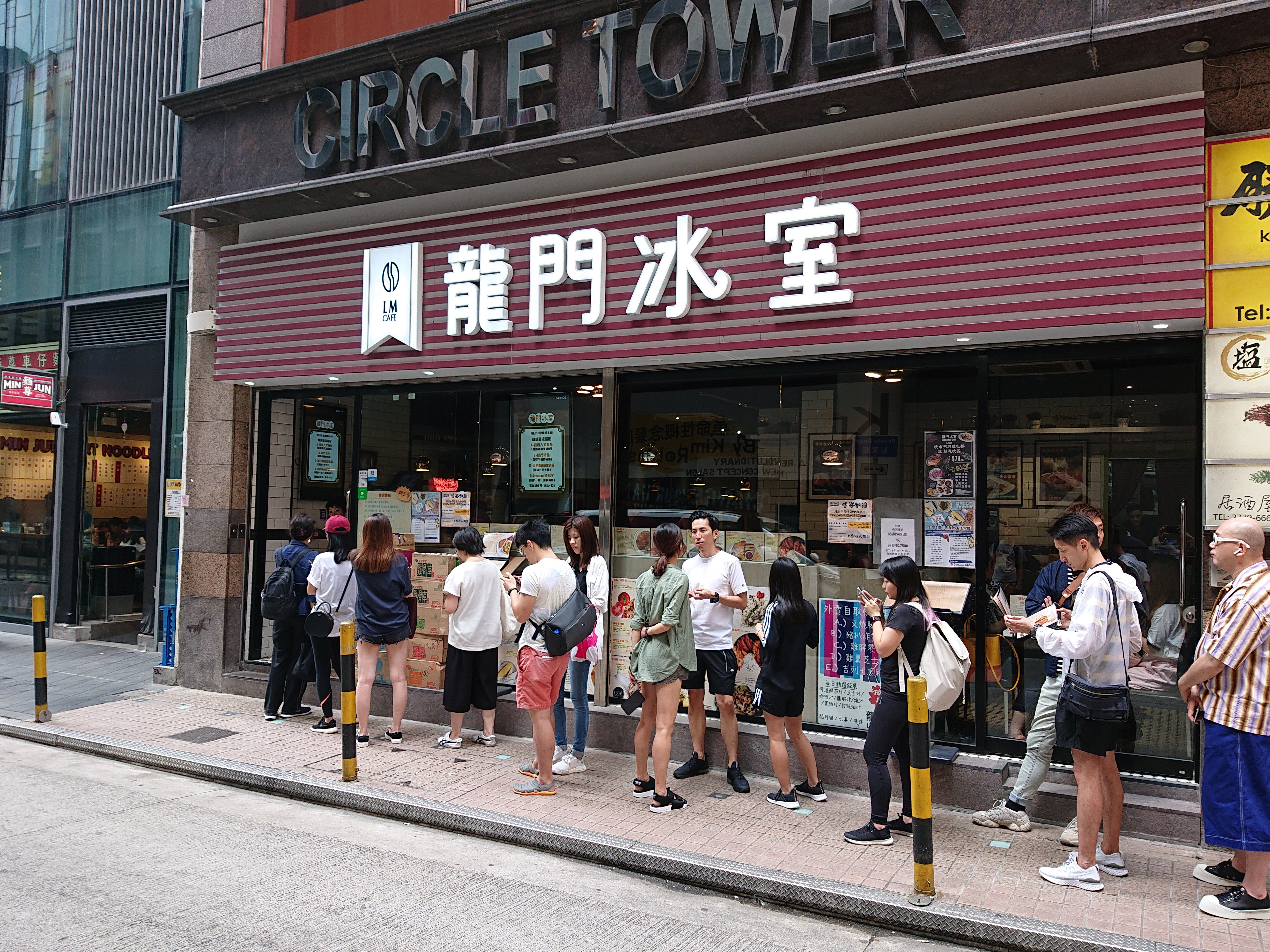 Lung Mun Cafe in Causeway Bay